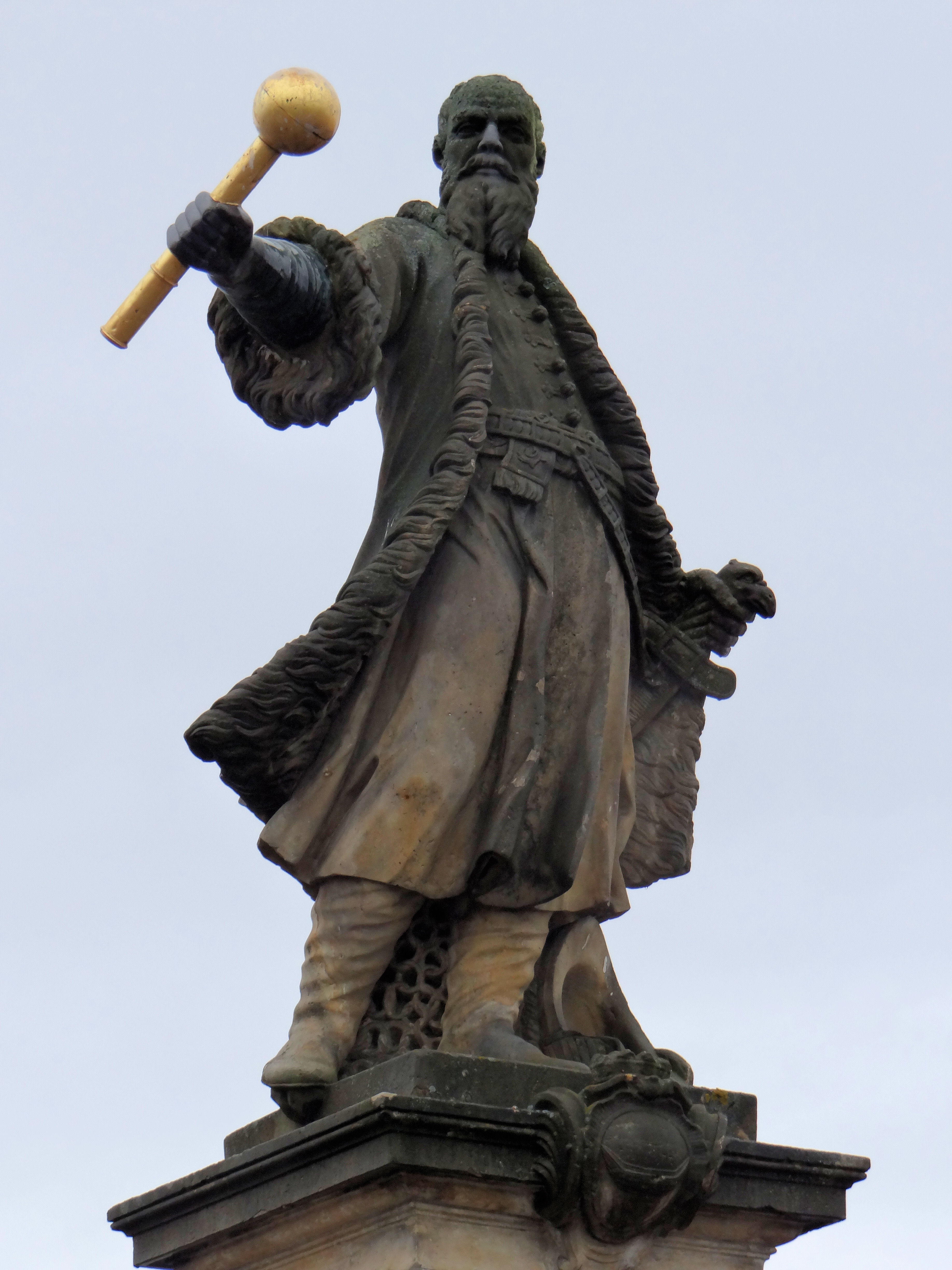 Stefan Czarniecki Monument in Tykocin